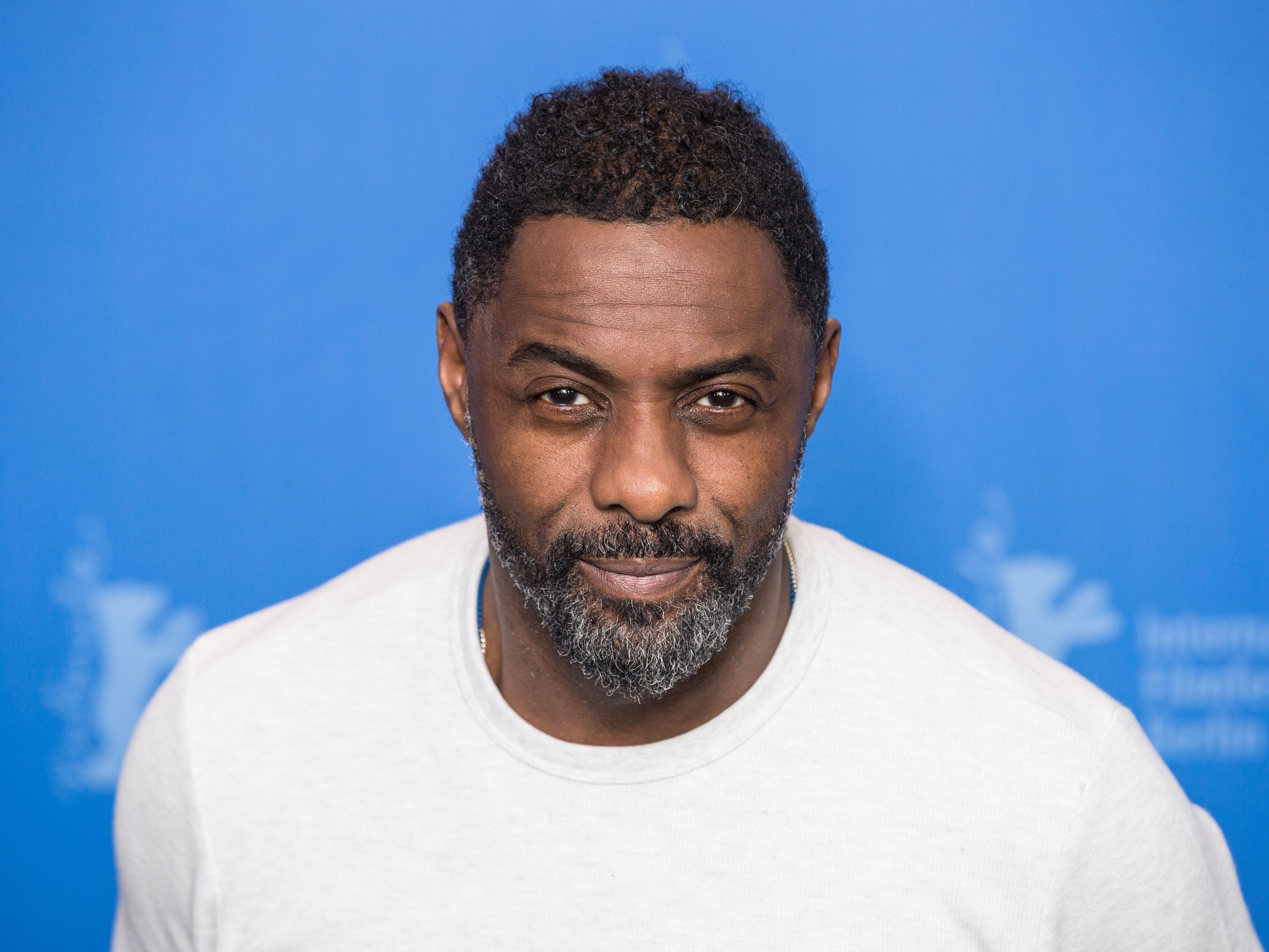 Actor and director Idris Elba at the Berlinale 2018